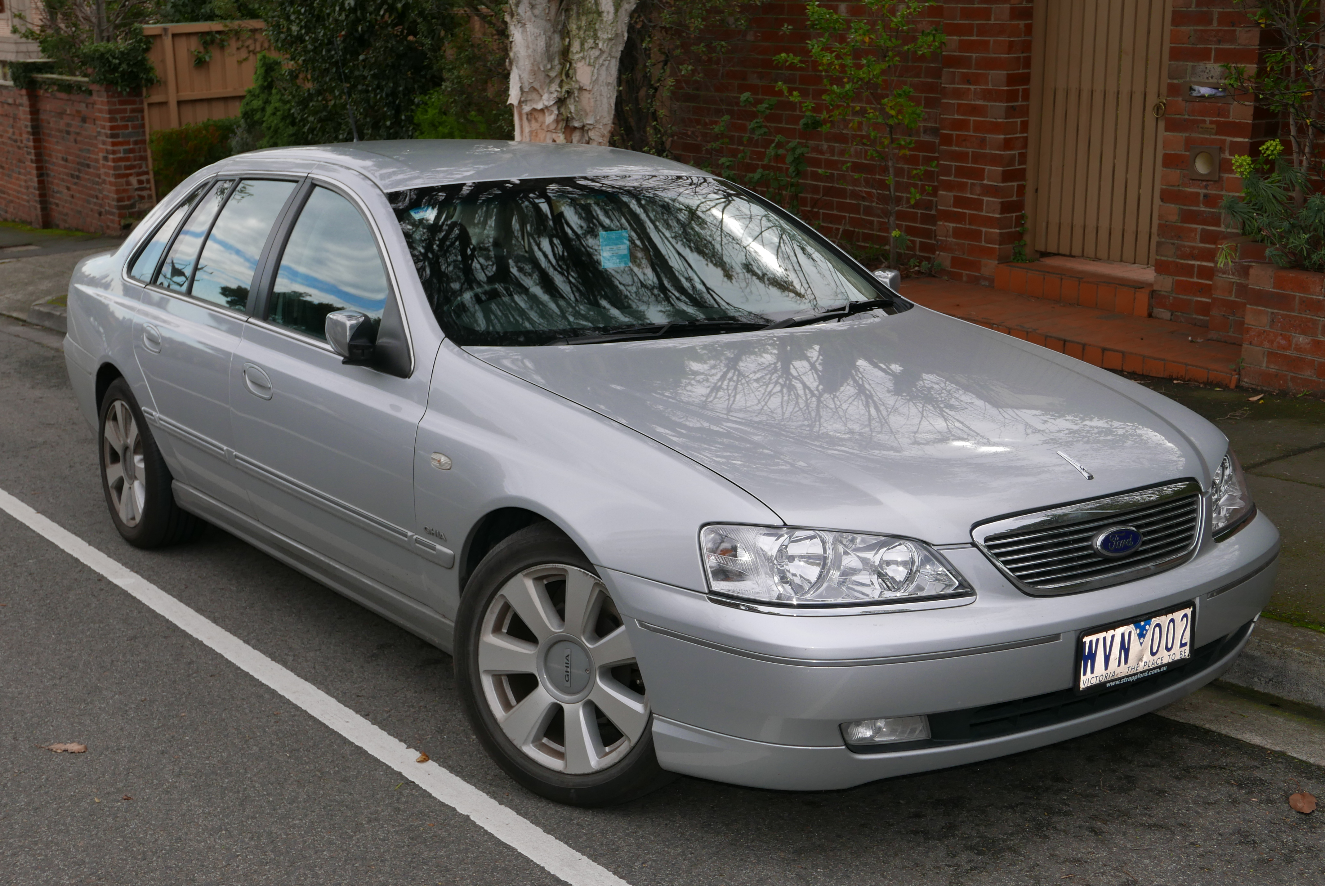 2007 Ford Fairlane (BF) Ghia sedan. Photographed in Kew, Victoria, Australia. Vehicle registration enquiry resultsJurisdictionVictoriaRegistrationWVN002Chassis code6FPAAAJGLW7U36782Engine codeJGLW7U36782Compliance date2007-10Year of manufacture2007